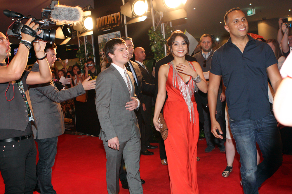 Vanessa Hudgens in Sydney for the Journey 2: The Mysterious Island premiere.